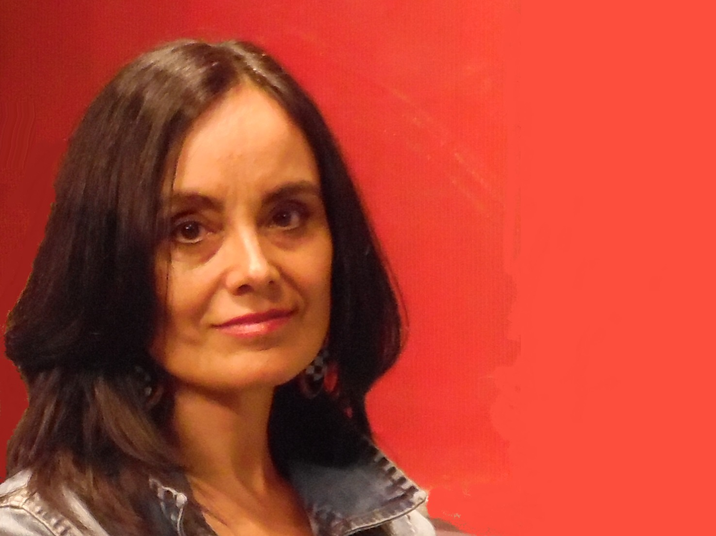 Image of chilean actress Elena Muñoz